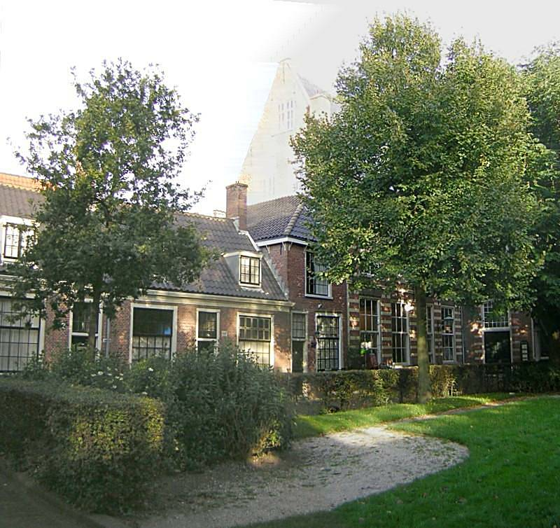 Proveniershof, Almhouse, Haarlem, The Netherlands